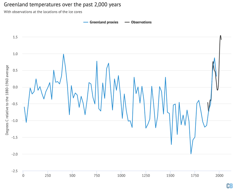 Greenland-temperatures-over-the-last-2-thousand-years